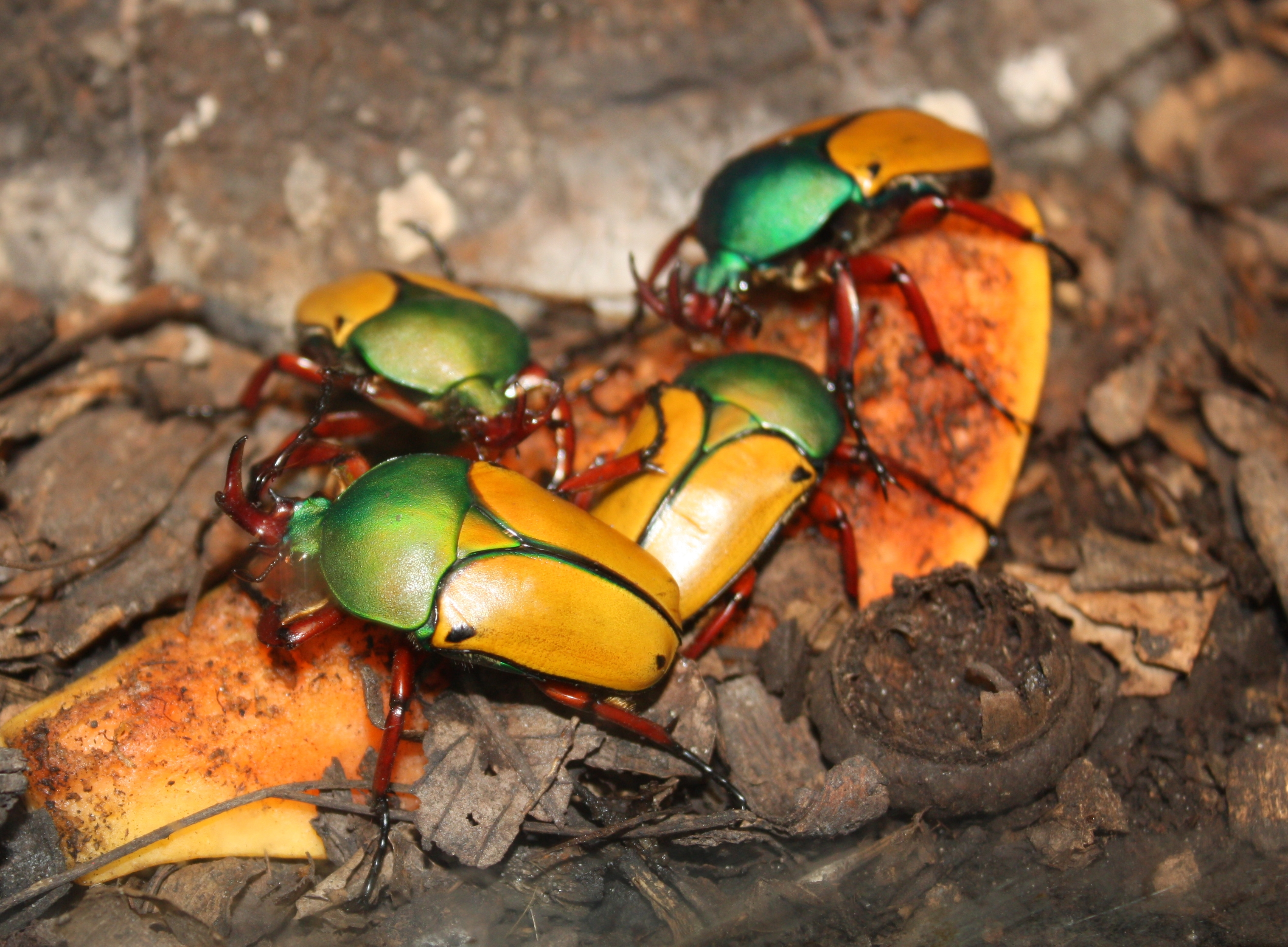 Jade-headed Buffalo Beetle Eudicella smithi At Cincinnati Zoo